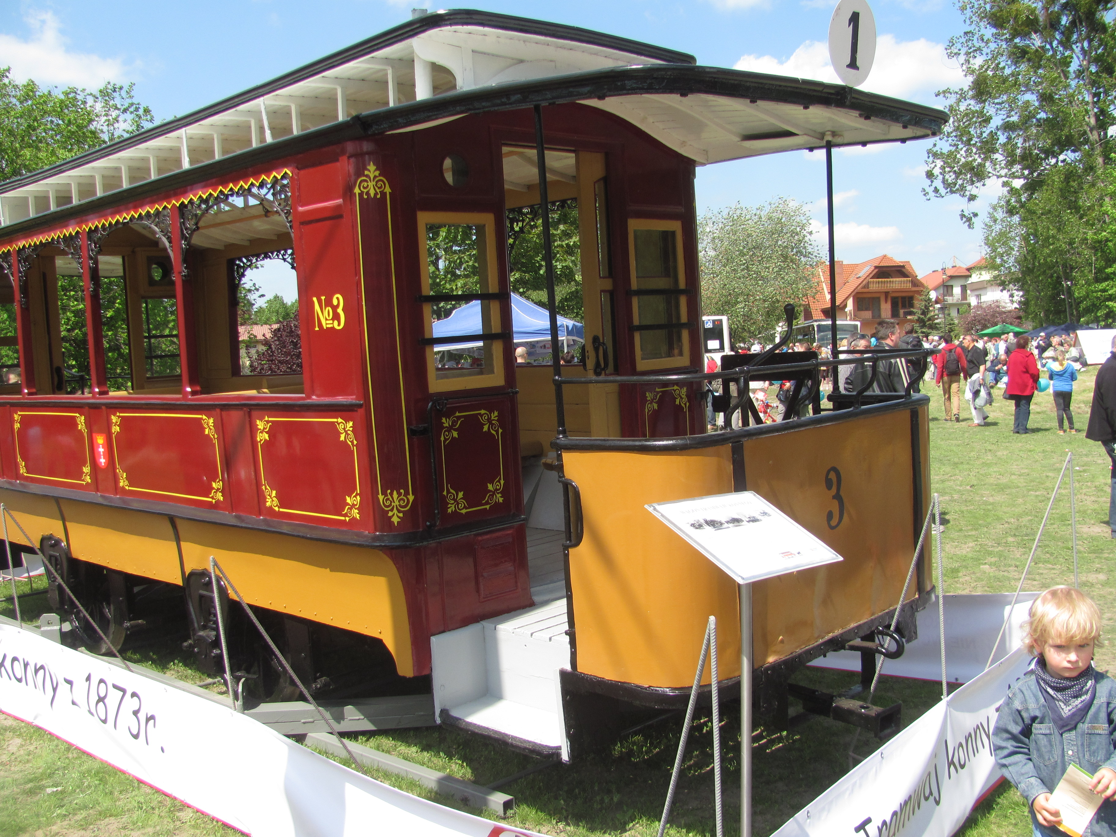 Historical horse-drawn tram Herbrand (1873) in Gdańsk.